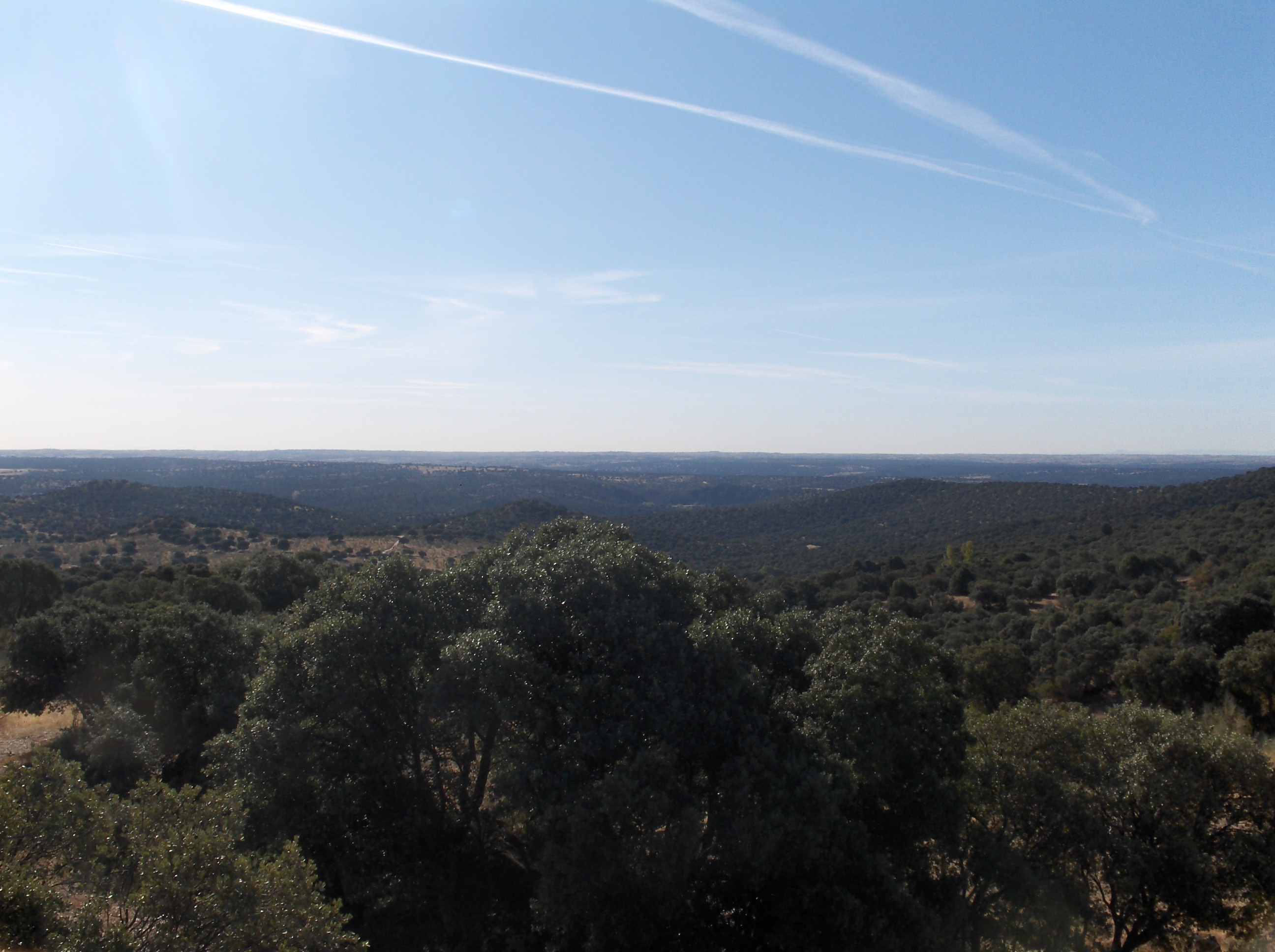 Views from Chapinería of south-west Madrid woods